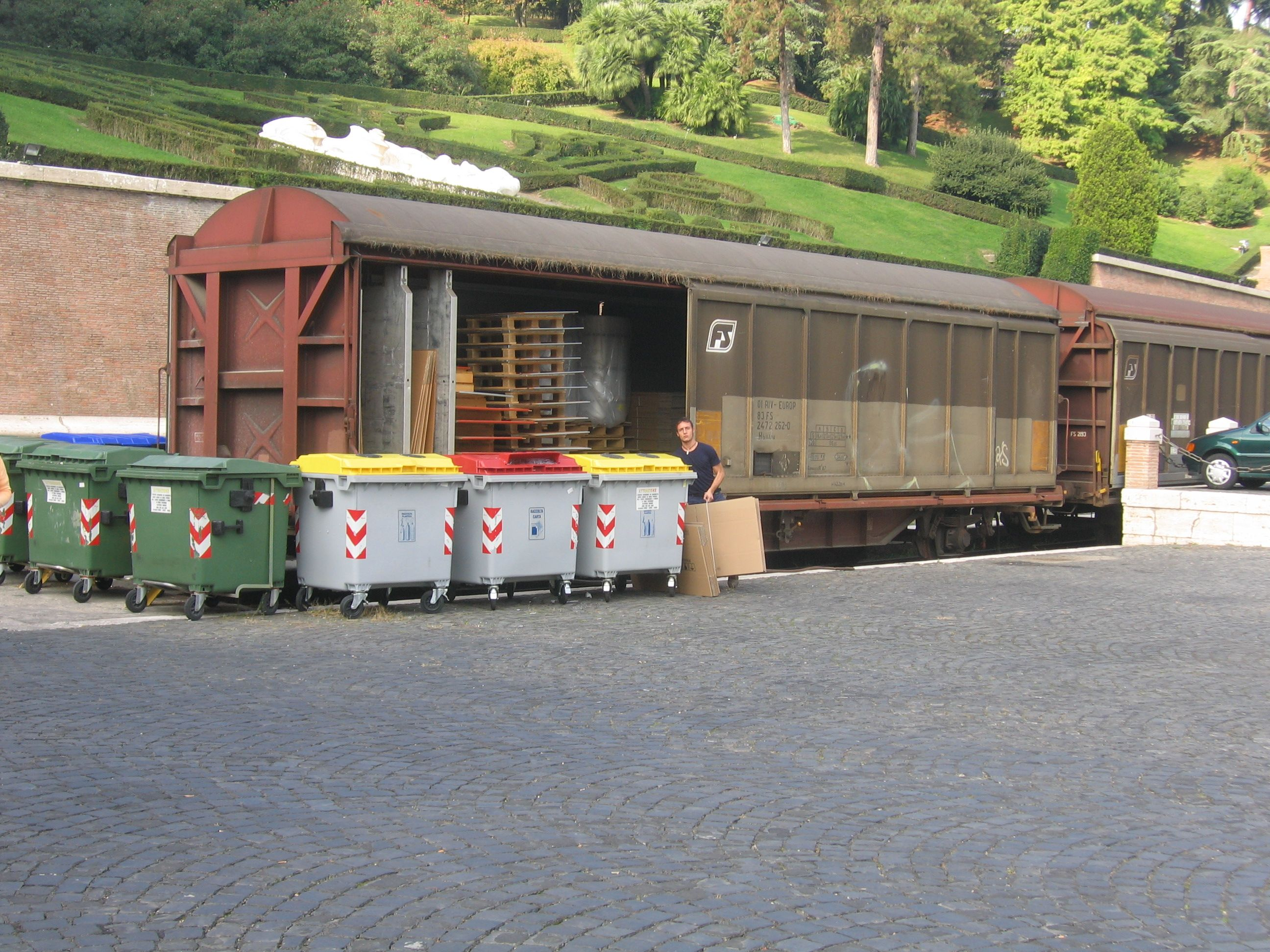 Cargo at Vatican